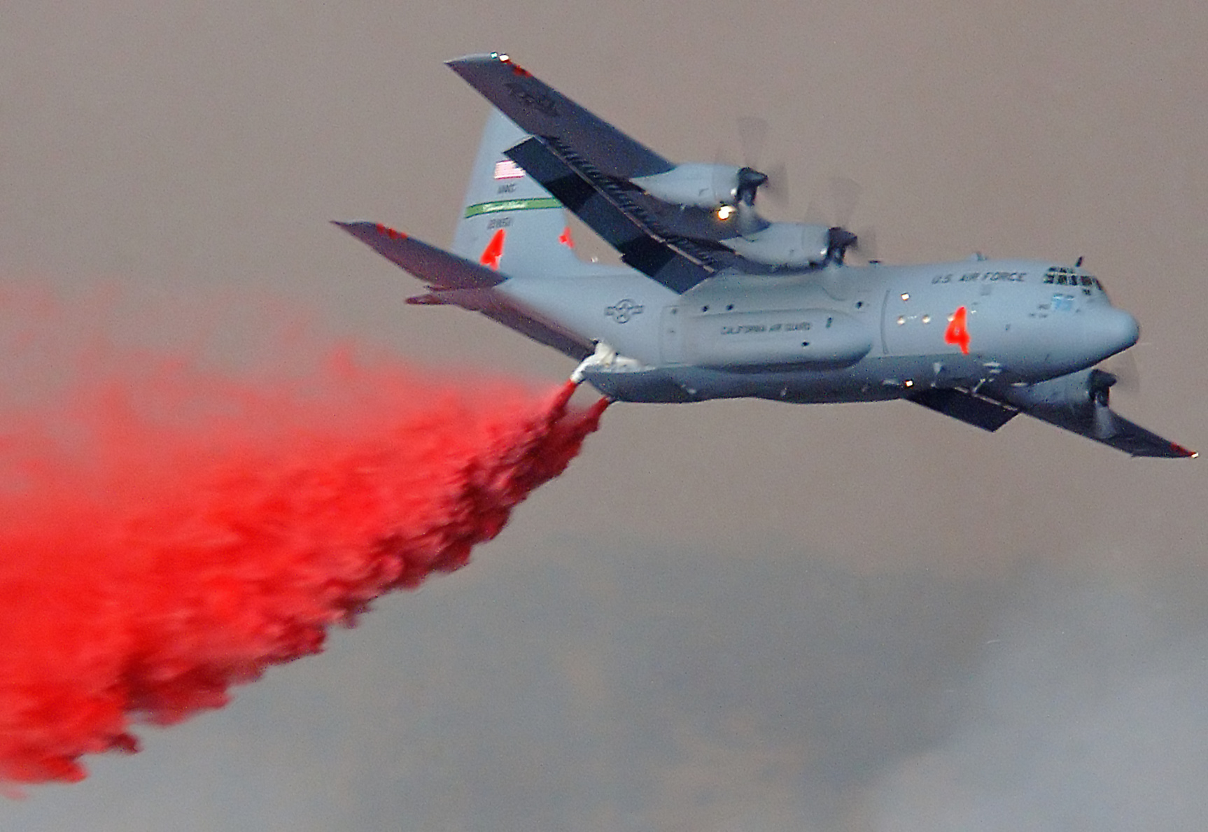 A C-130 firefighting, cropped/rotated/denoised from 031028-F-6278K-164 A US Air Force (USAF) C-130E Hercules cargo aircraft rigged with a Modular Airborne Fire Fighting System (MAFFS) from the 146th Airlift Wing (AW), Channel Islands Air National Guard Station (ANGS), makes a Phoschek fire retardant drop on the Simi Fire in Southern California (CA).